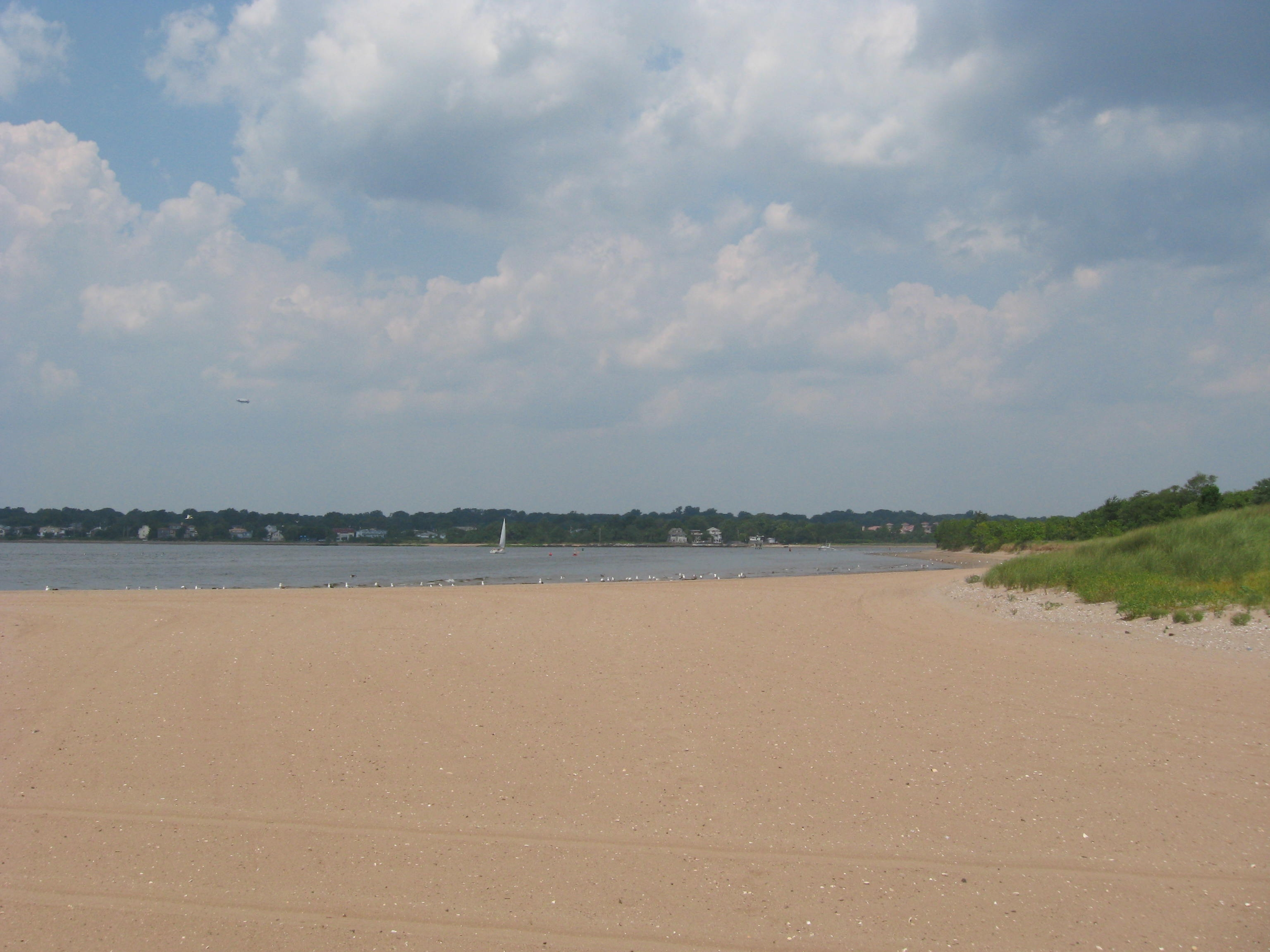 Harbor at Great Kills, Staten Island on a sunny early afternoon in July 2008